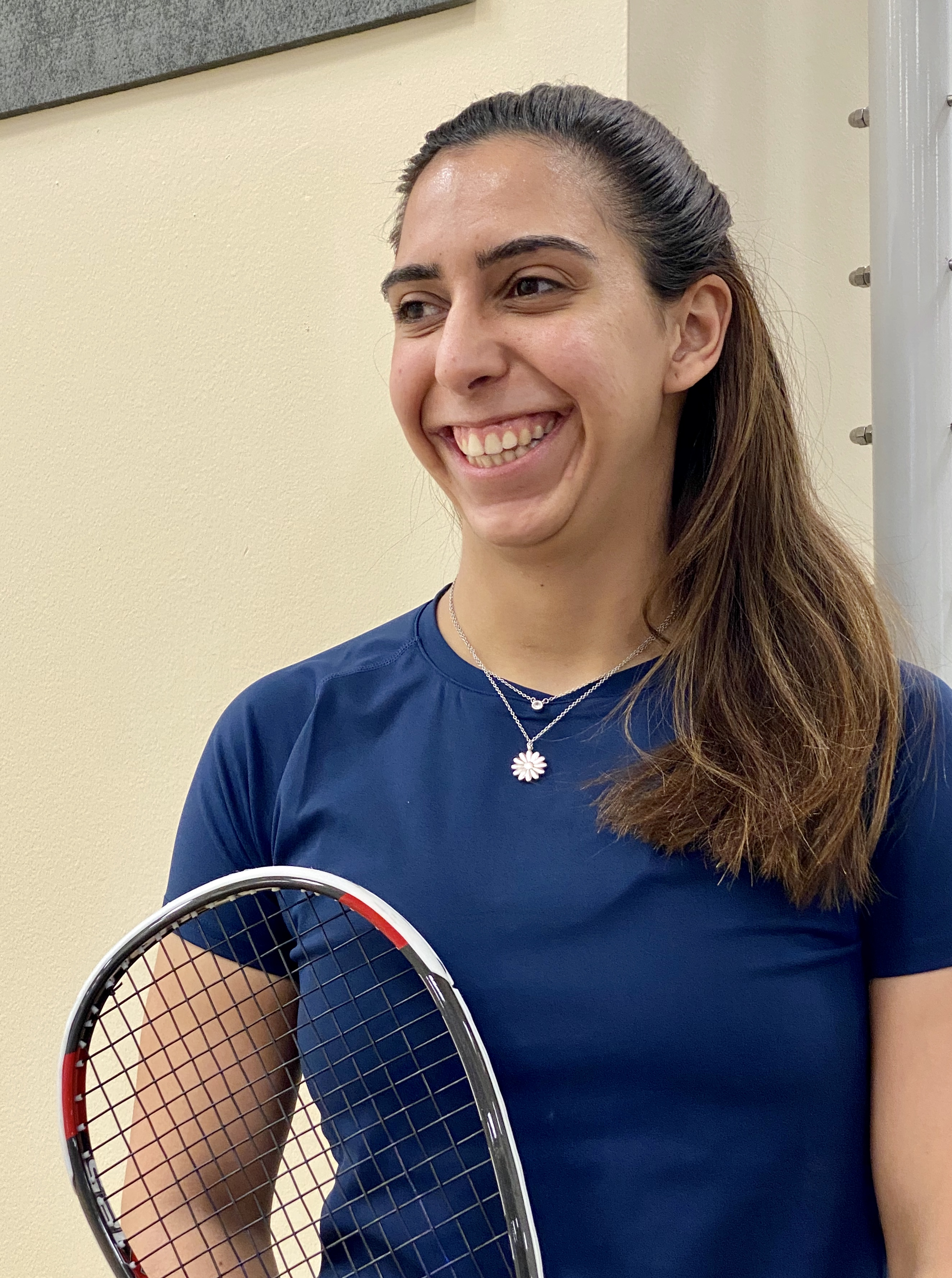 Shahin at Cleveland Classic 2020 , Cleveland, Ohio